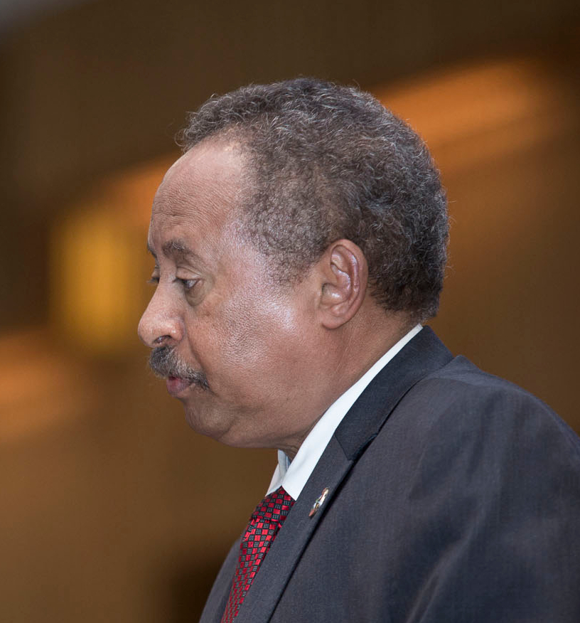 Abdalla Hamdok in 2017